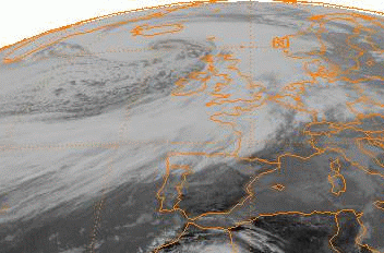 This is a Meteosat infrared satellite image of the Braer Storm of January 10, 1993, while at peak intensity. This storm is the strongest known extratropical cyclone to exist across the northern Atlantic ocean.